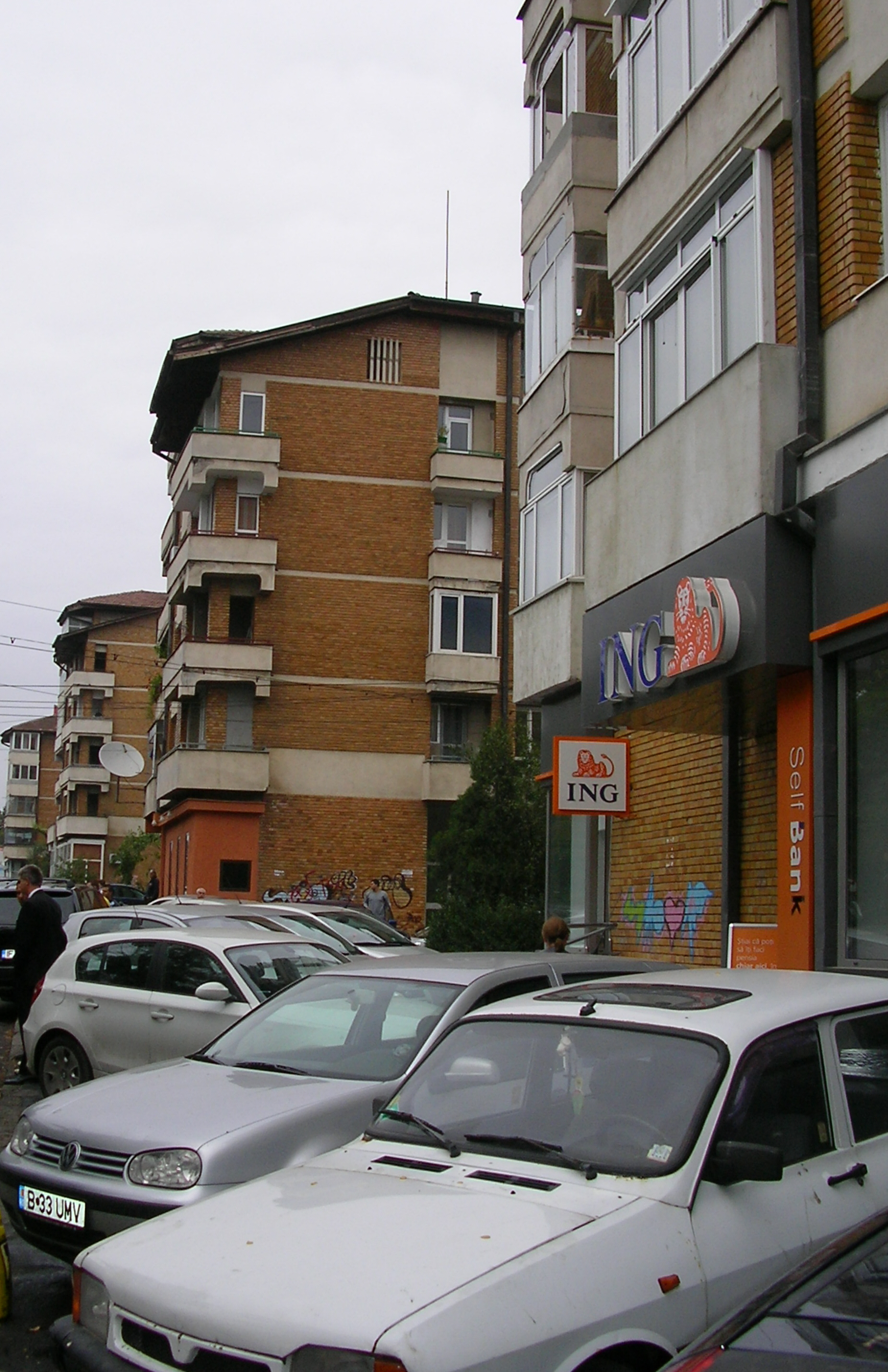 Apartment buildings and ING branch in Băneasa, Bucharest